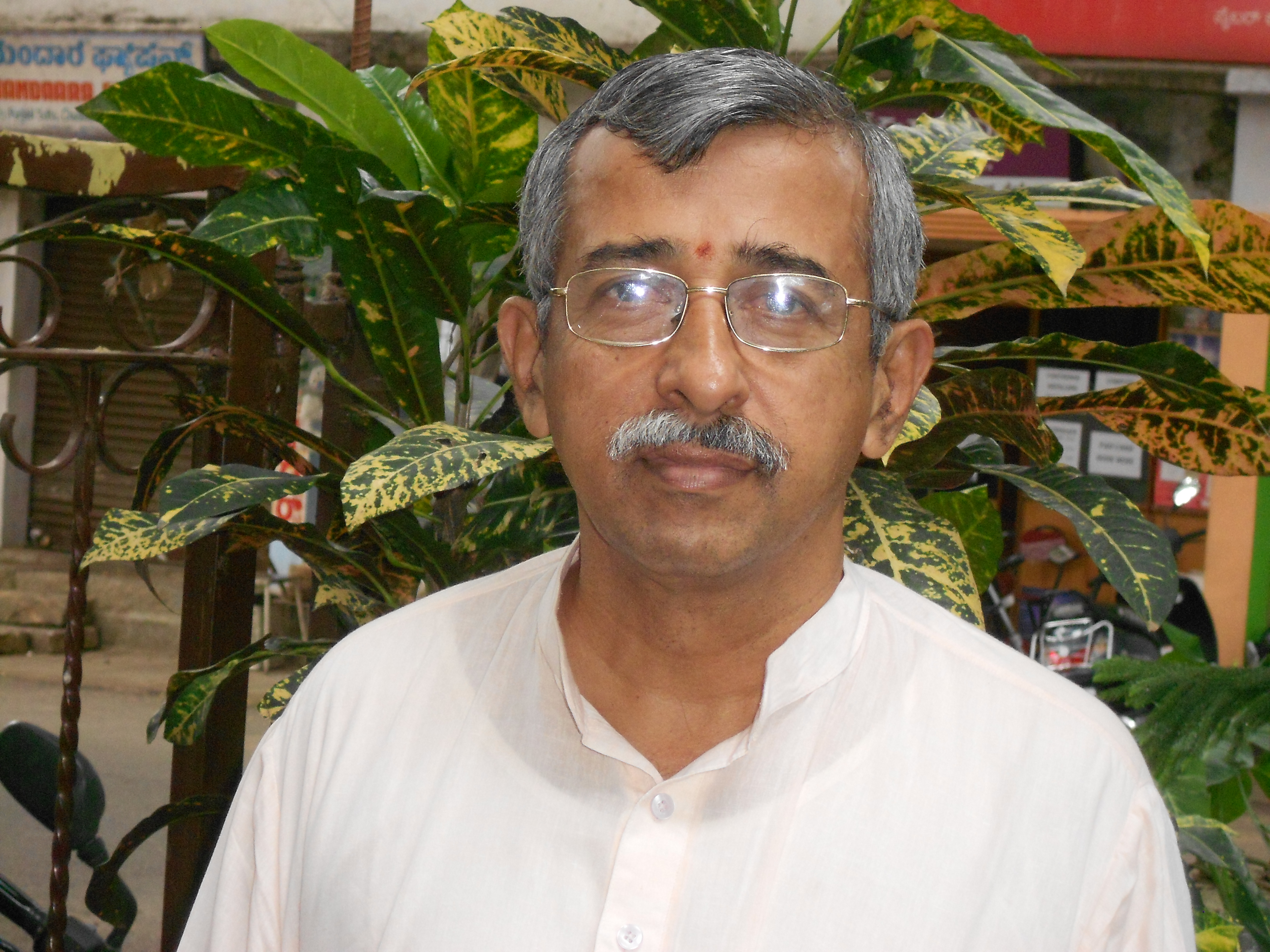 Akhila Bharatiya Prakashana Pramukh. संस्कृतम्: अखिलभारतीयप्रकाशनप्रमुखः